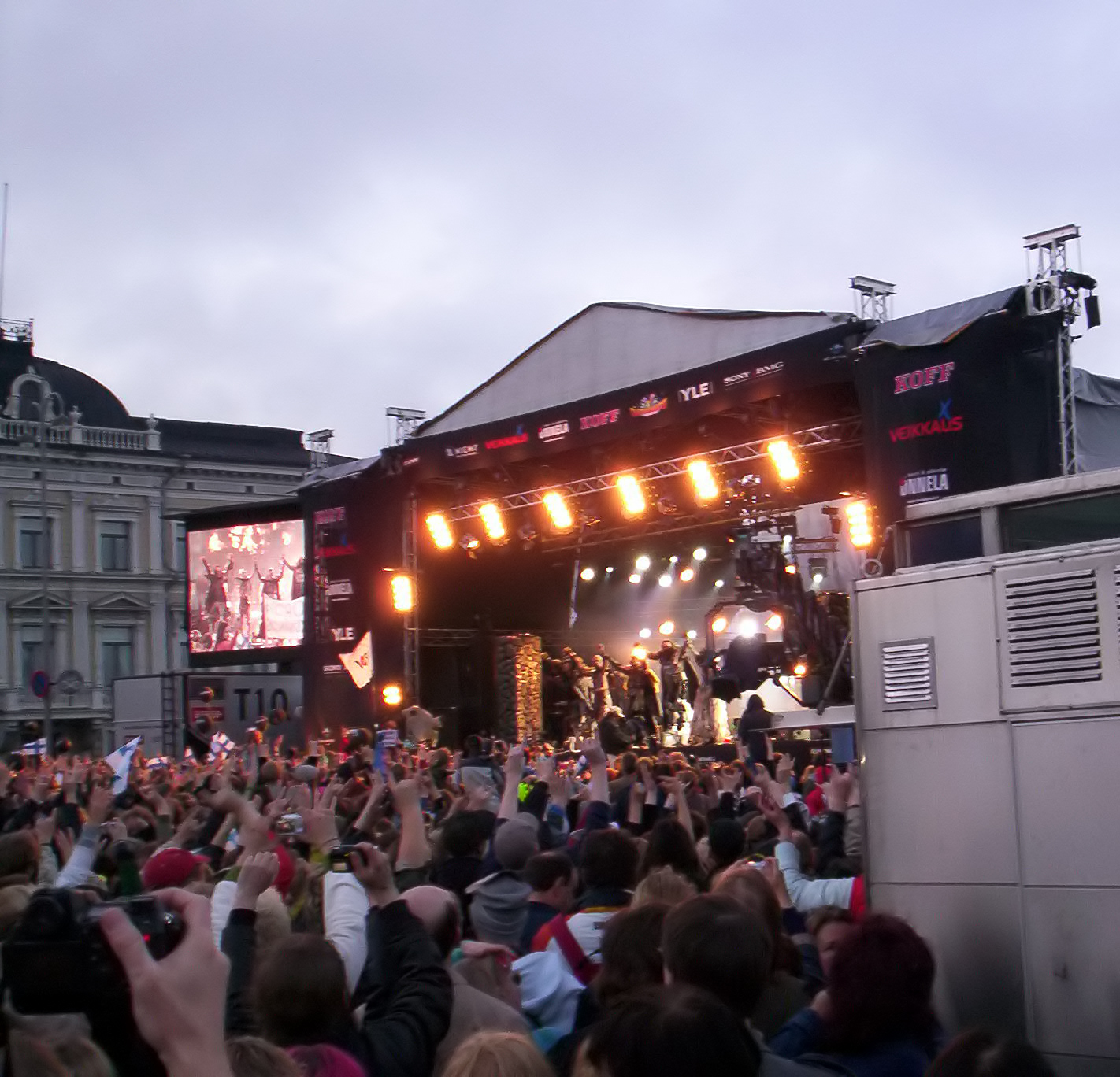 Lordi at kauppatori 26.05.2006, Helsinki, Finland.